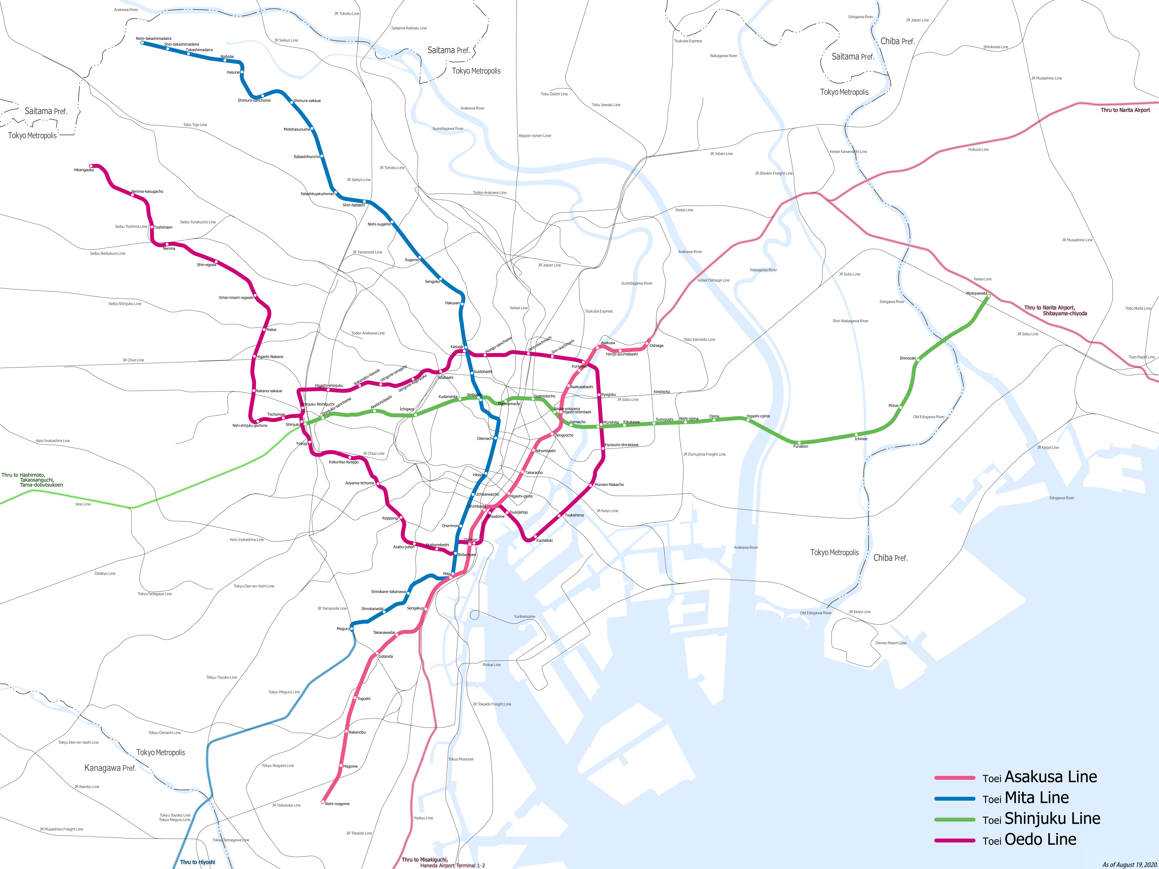 Map of Toei Subway lines （As of August 2020）